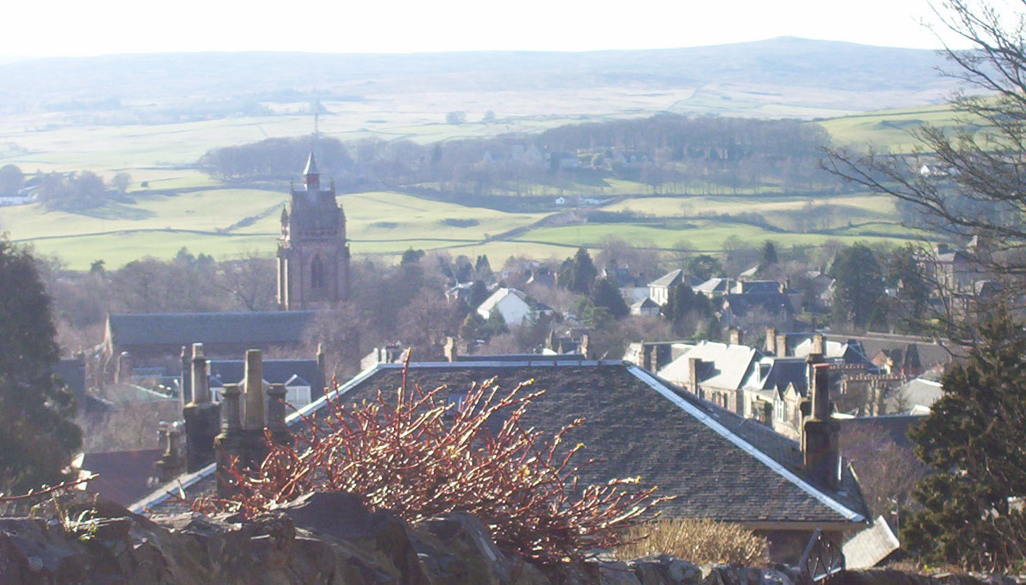 Kilmacolm, from Barclavan Road on Rowantreehill. The spire in the centre of the image belongs to St Columba's Church; the former Balrossie School is visible amongst the trees in the top right of the image.